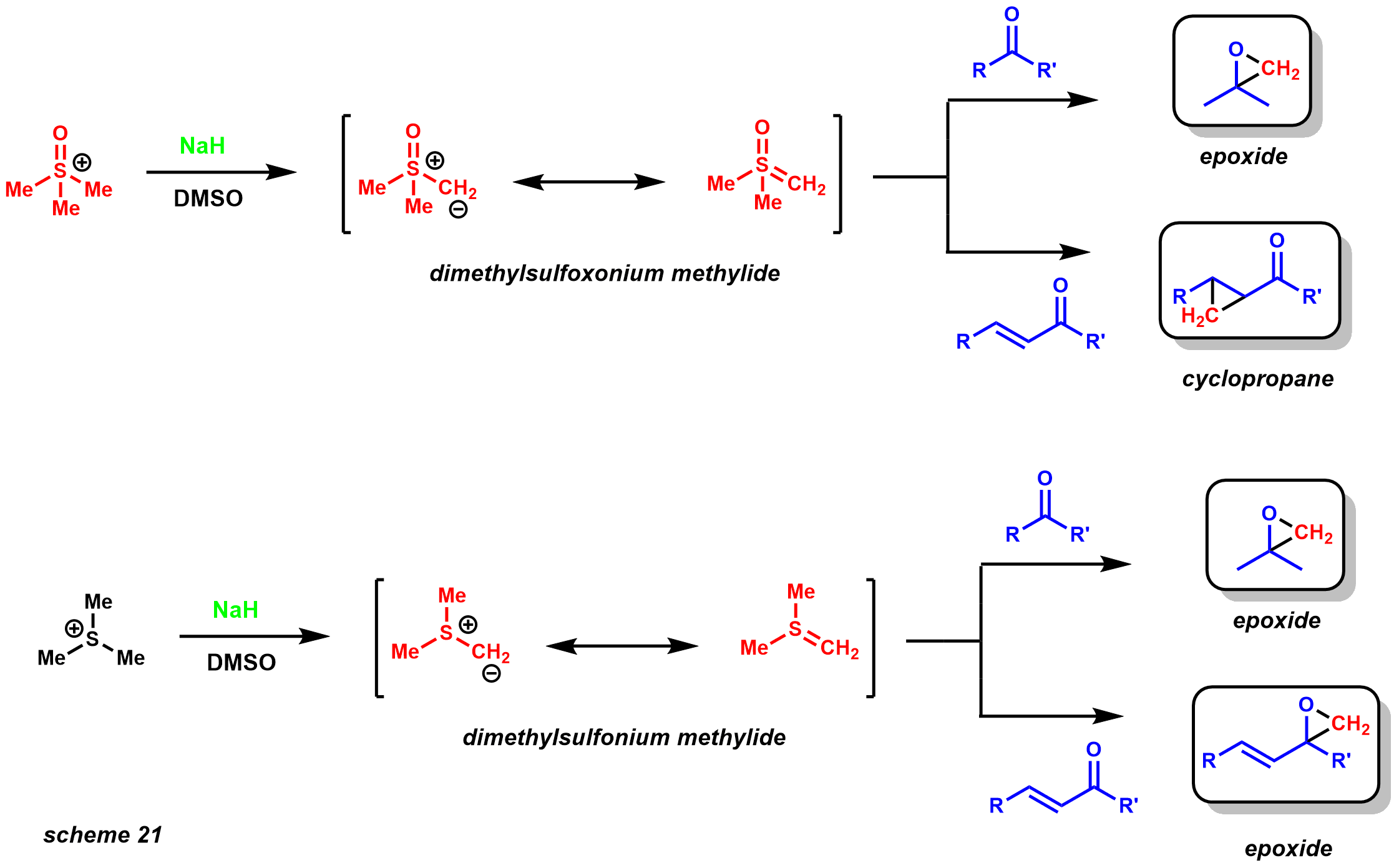 corey-chaykovsky selectivity